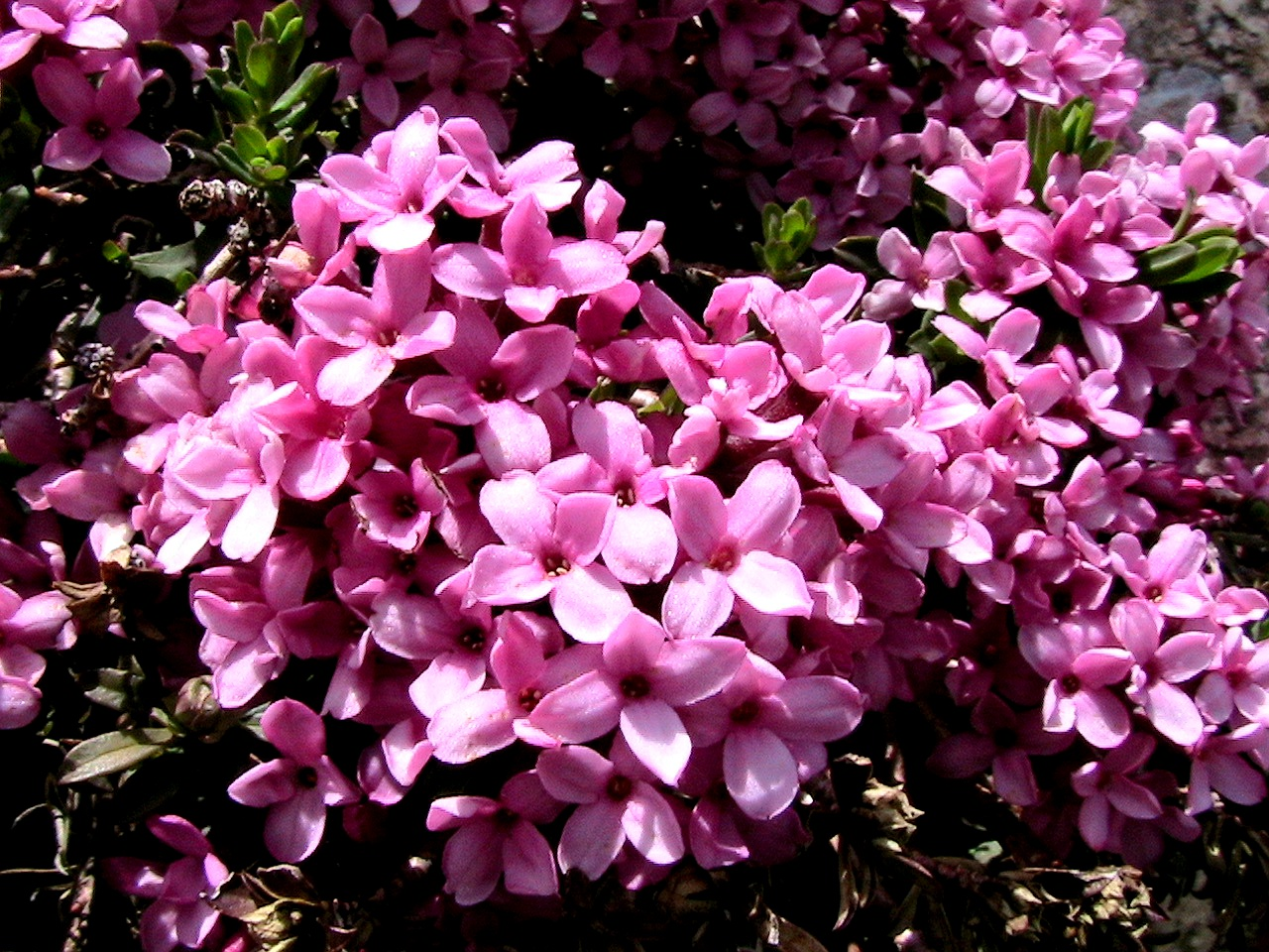 Daphne cneorum. In Cabdella (Pallars Jussà - Catalunya. To 2.140 m altitude